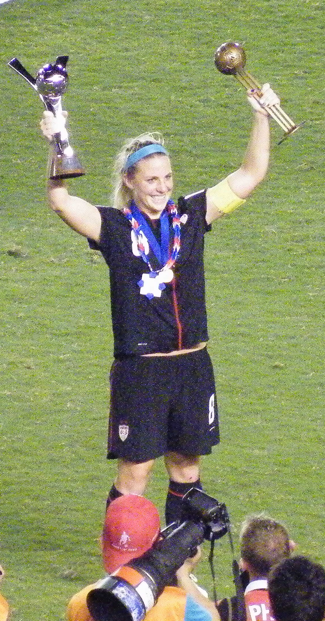 Julie JOHNSTON with 2012 FIFA U-20 Women's World Cup, and her Bronze Ball trophies